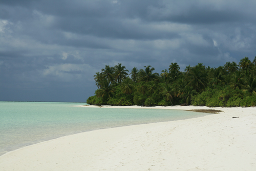 author: a_robustus (photo taken by uploader)